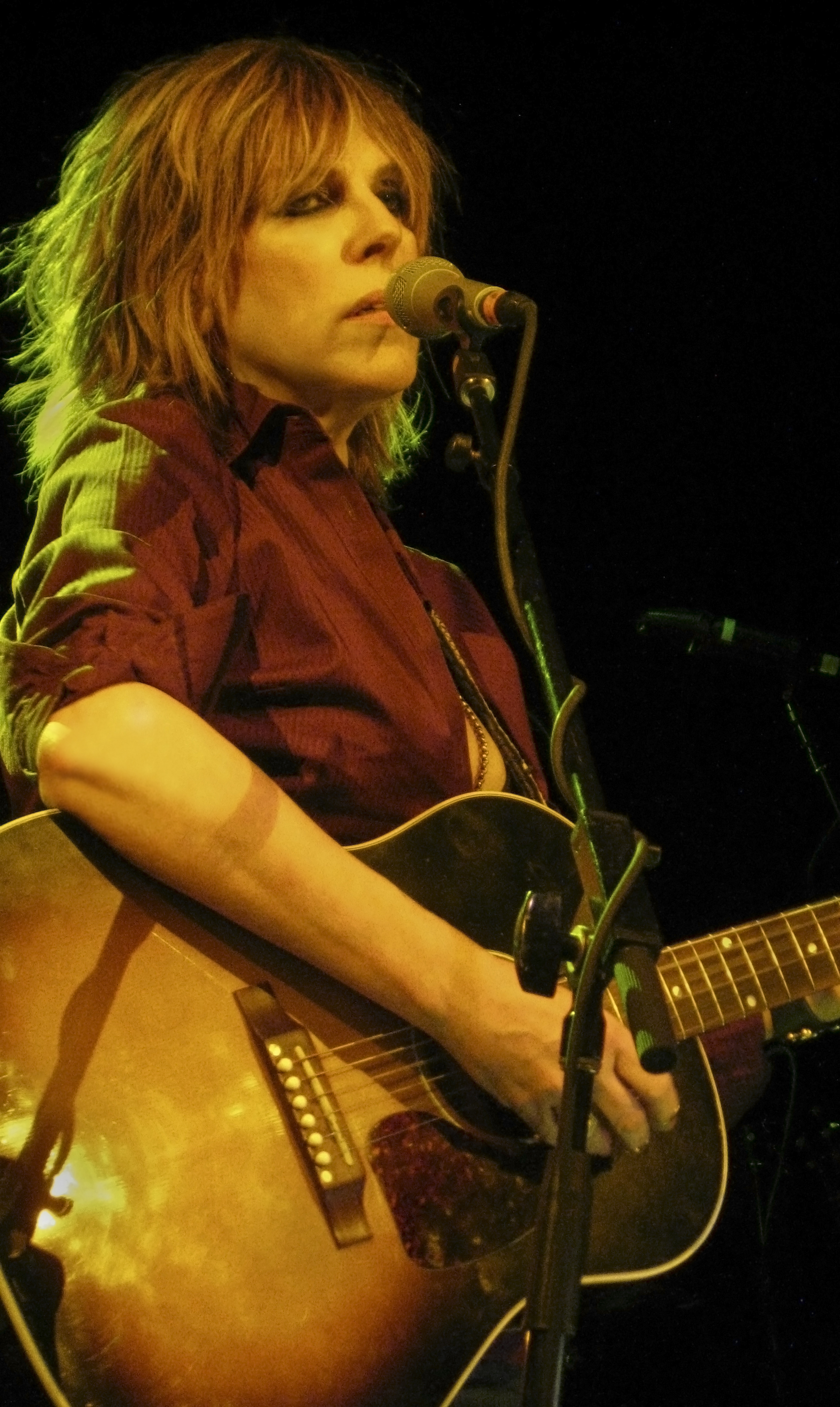 Lucinda Williams at the Fillmore NYC